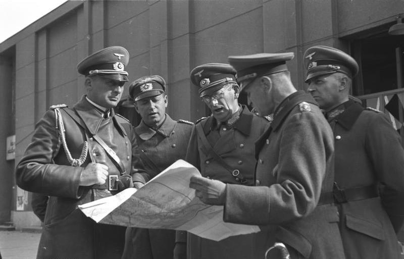 Warsaw during World War II